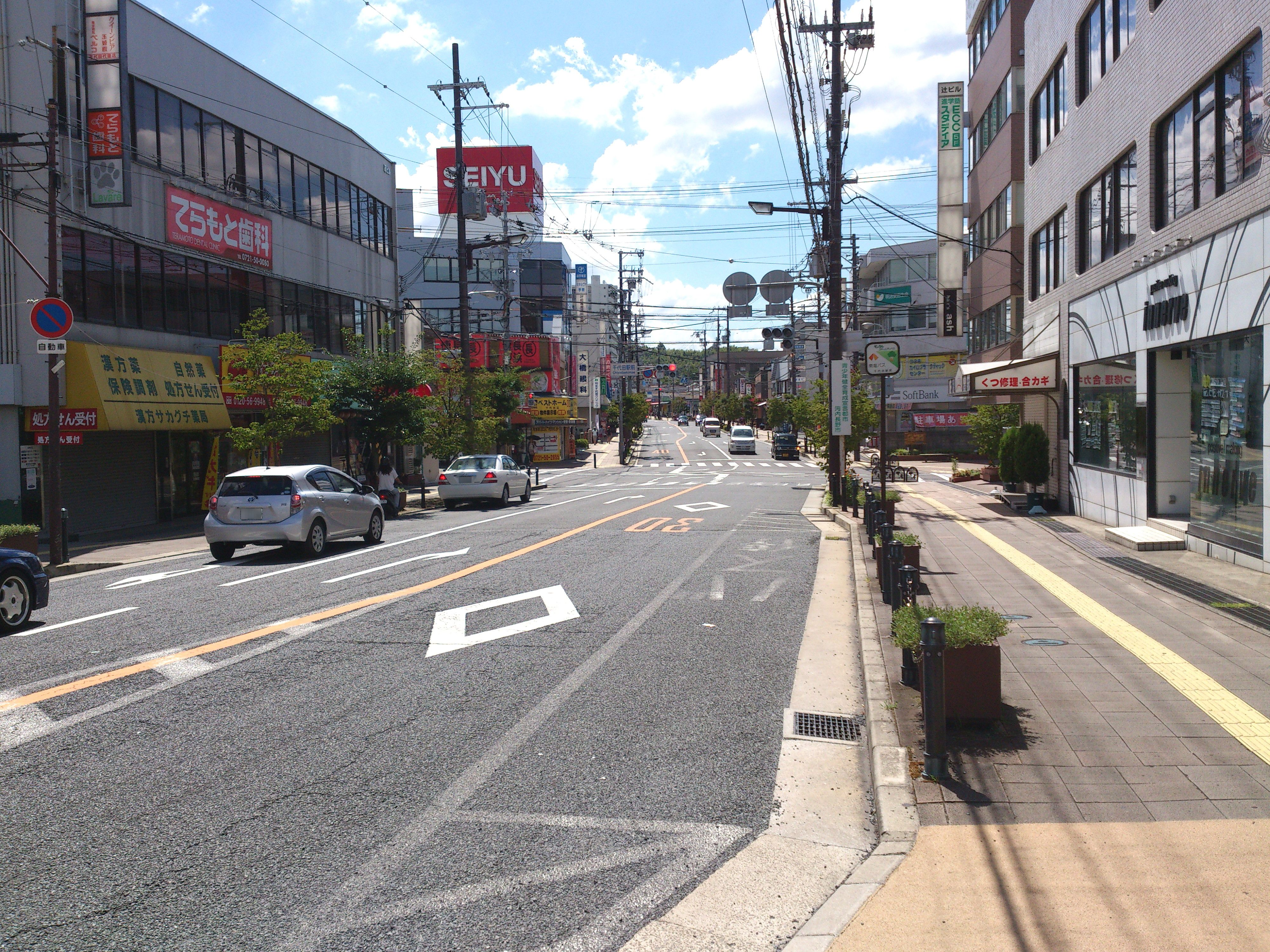 Chiyodaekimae Crossing in Kawachinagano, Osaka, Japan.